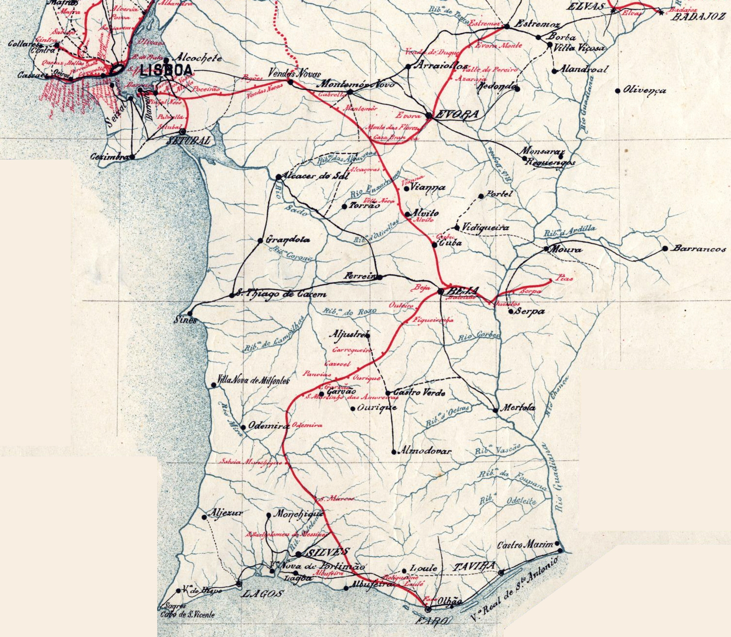 Map of the Caminhos de Ferro do Sul e Sueste (South and Southeastern Railway), in Portugal, in 1895. The South and Southeastern railway was a state network that connected the town of Barreiro to the regions of Alentejo and Algarve. At Barreiro, there is a ferry terminal with services to the capital, Lisbon, which was at the other side of the Tagus River. In 1895, the main line between Barreiro and Faro was already completed, with branch lines to Pias, Setúbal and Estremoz.